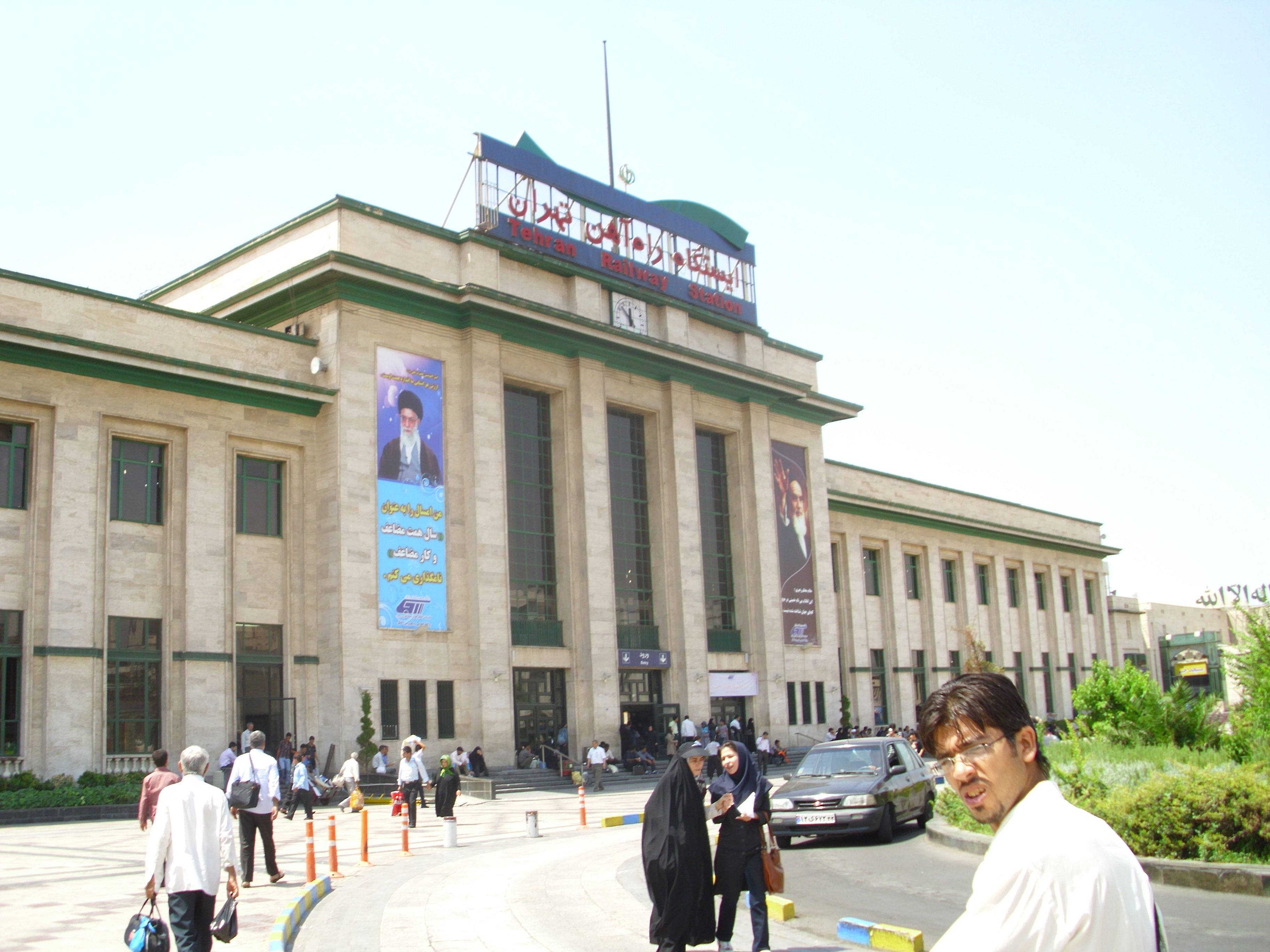 Main railway station in Tehran, Iran.